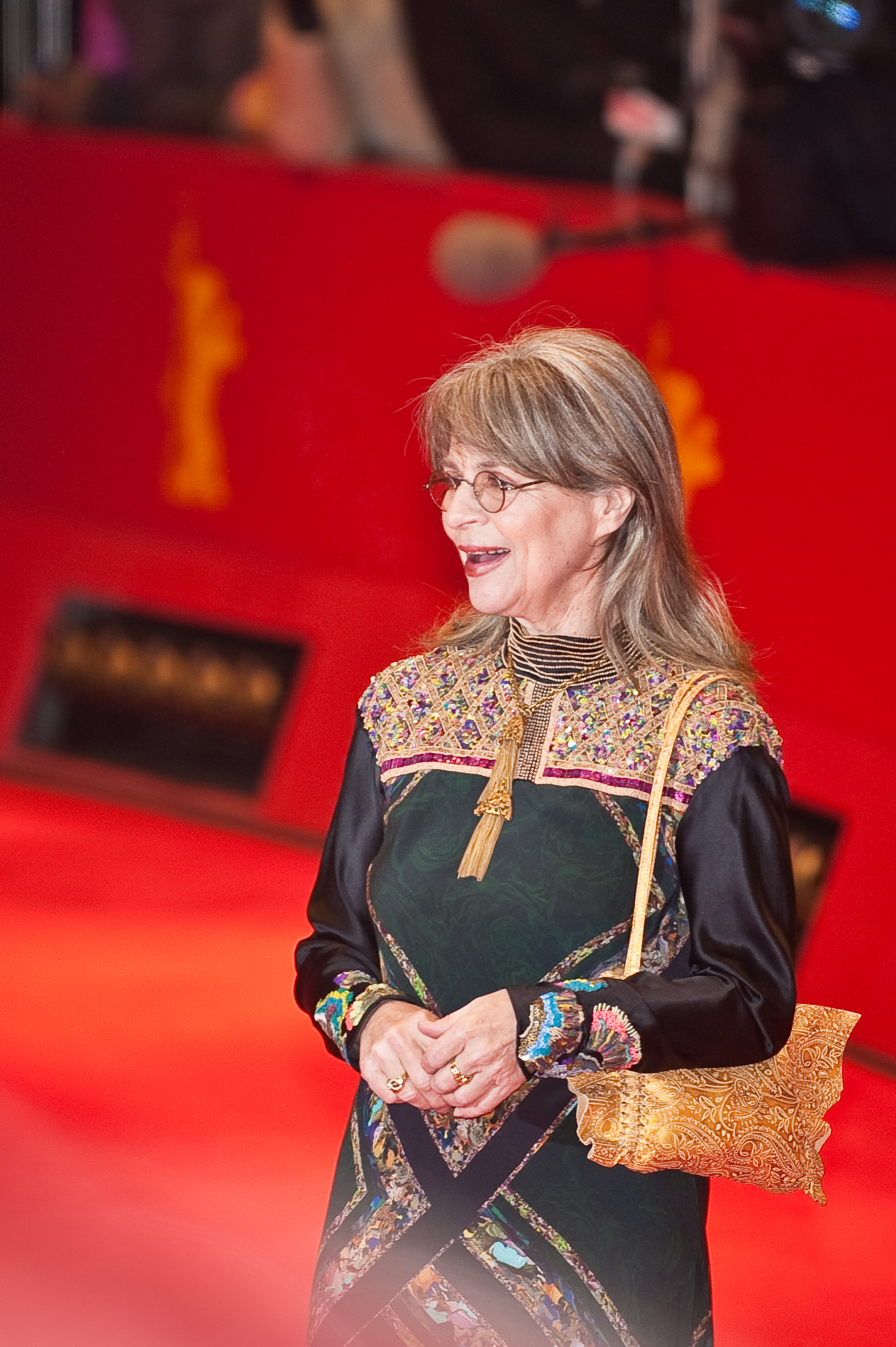 Singer and actress Cornelia Froboess, member of the jury, arriving at the opening of the 60th Berlin International Film Festival